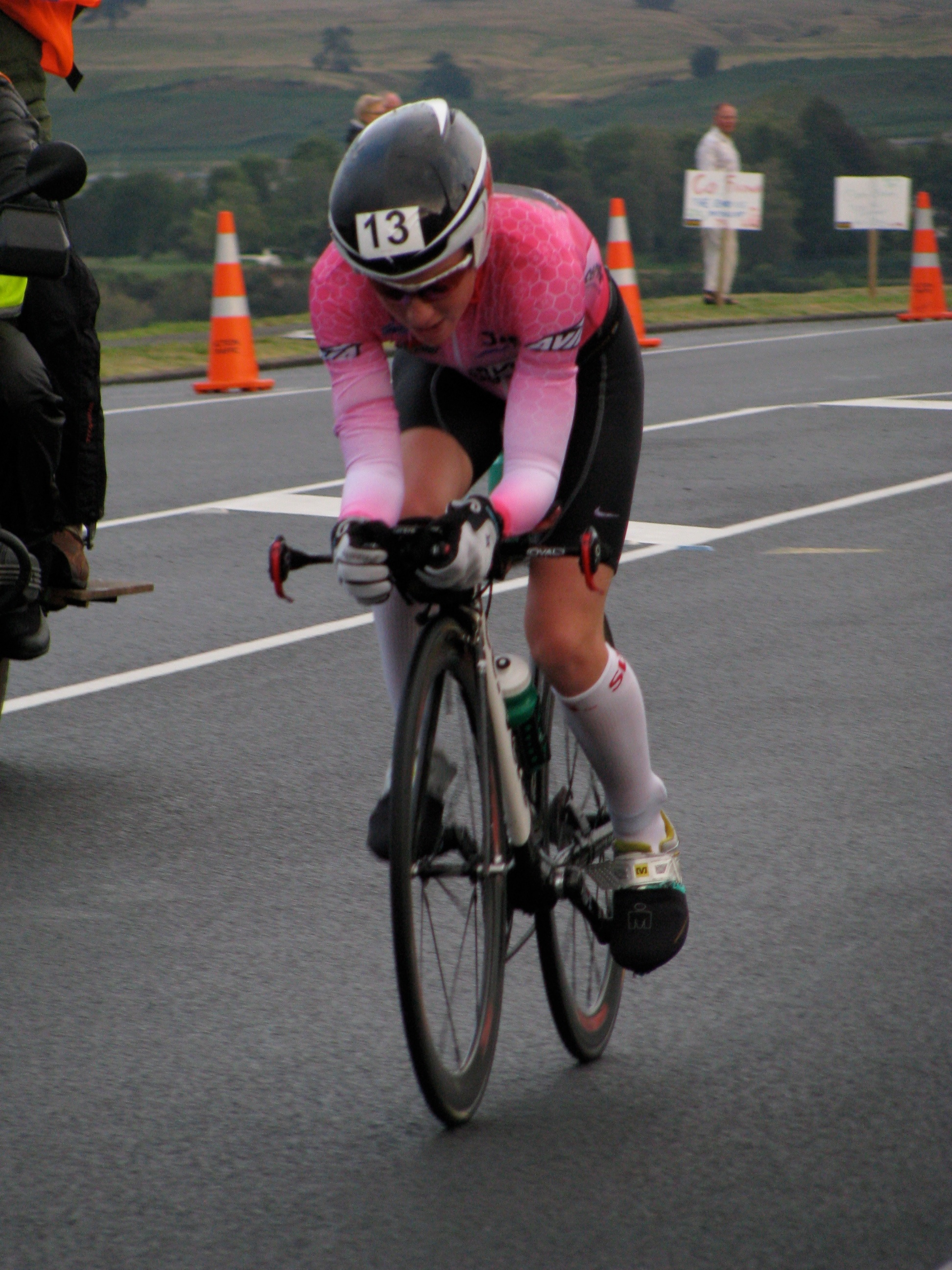 Ironman NZ 2009 Ironman New Zealand in Taupo 2009